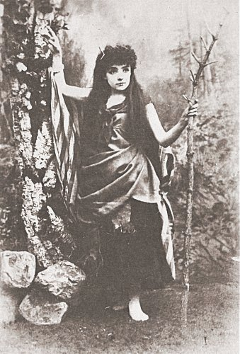 Jessie Bond as Mad Margaret in Ruddigore